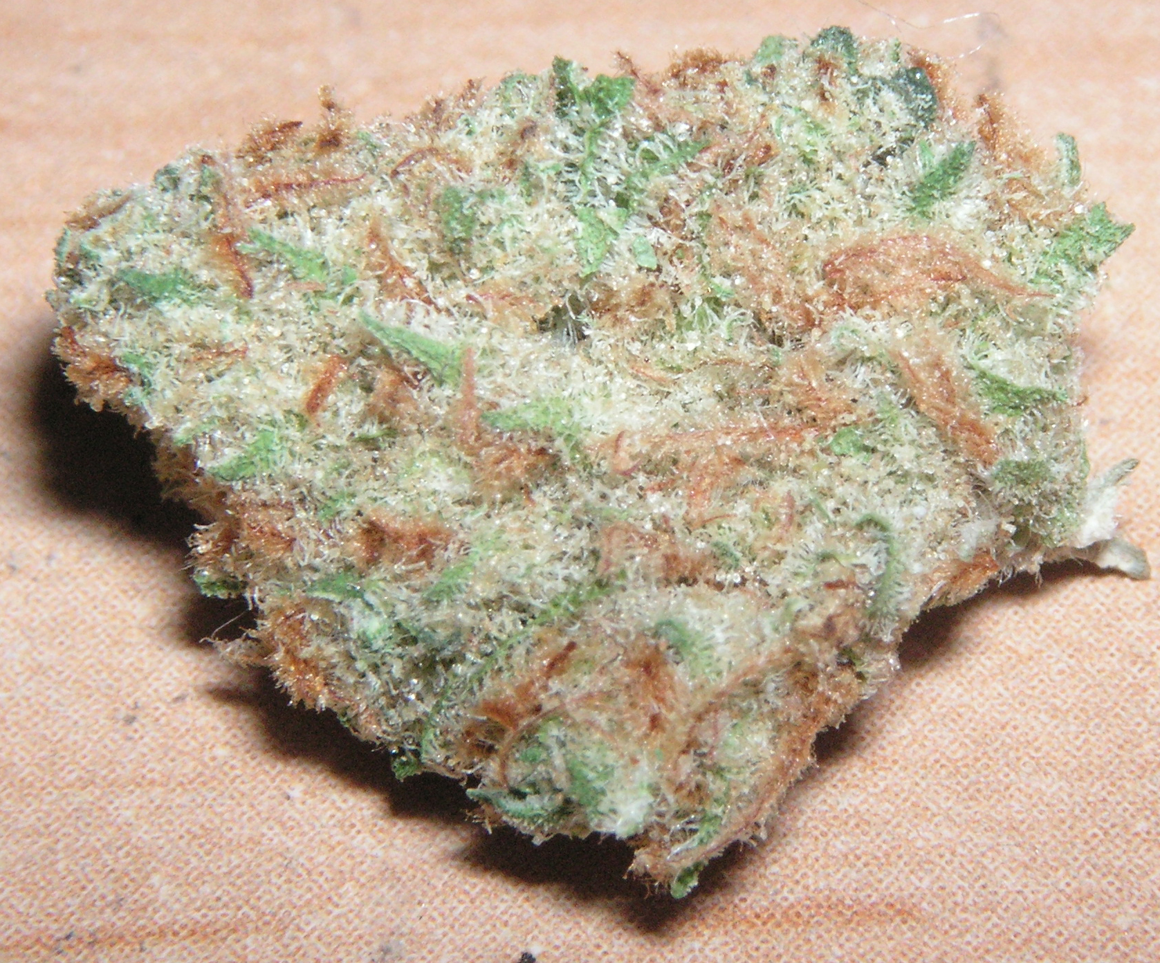 Super Sativa which gives a stimulant like high, much more of a head high than a body high.